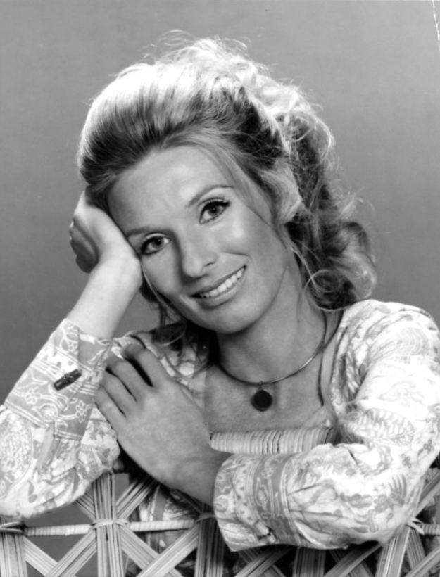 Photo of Cloris Leachman.